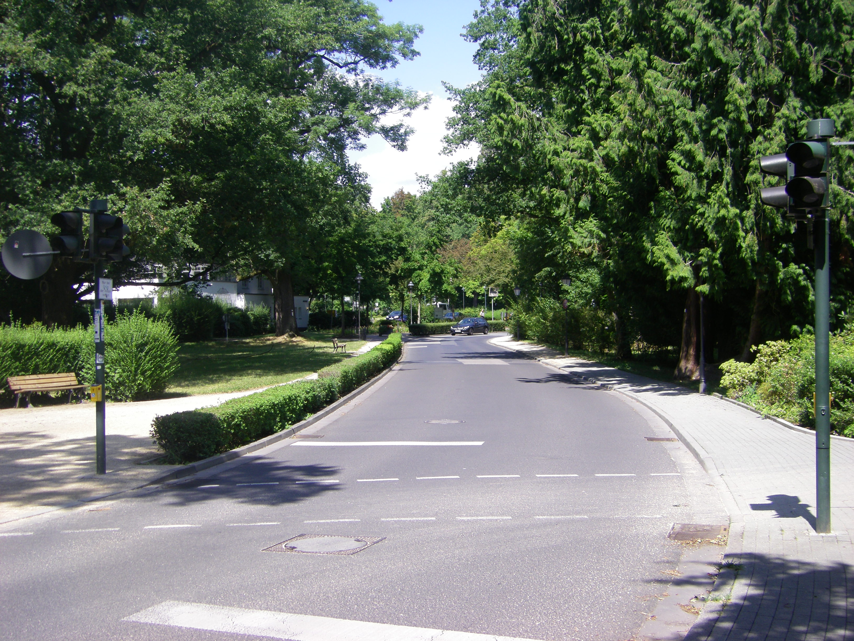 Section of the Kisseleffstraße in the spa gardens of Bad Homburg between the two famous locations "Tennisbar" (on the left) and the casino (on the right)